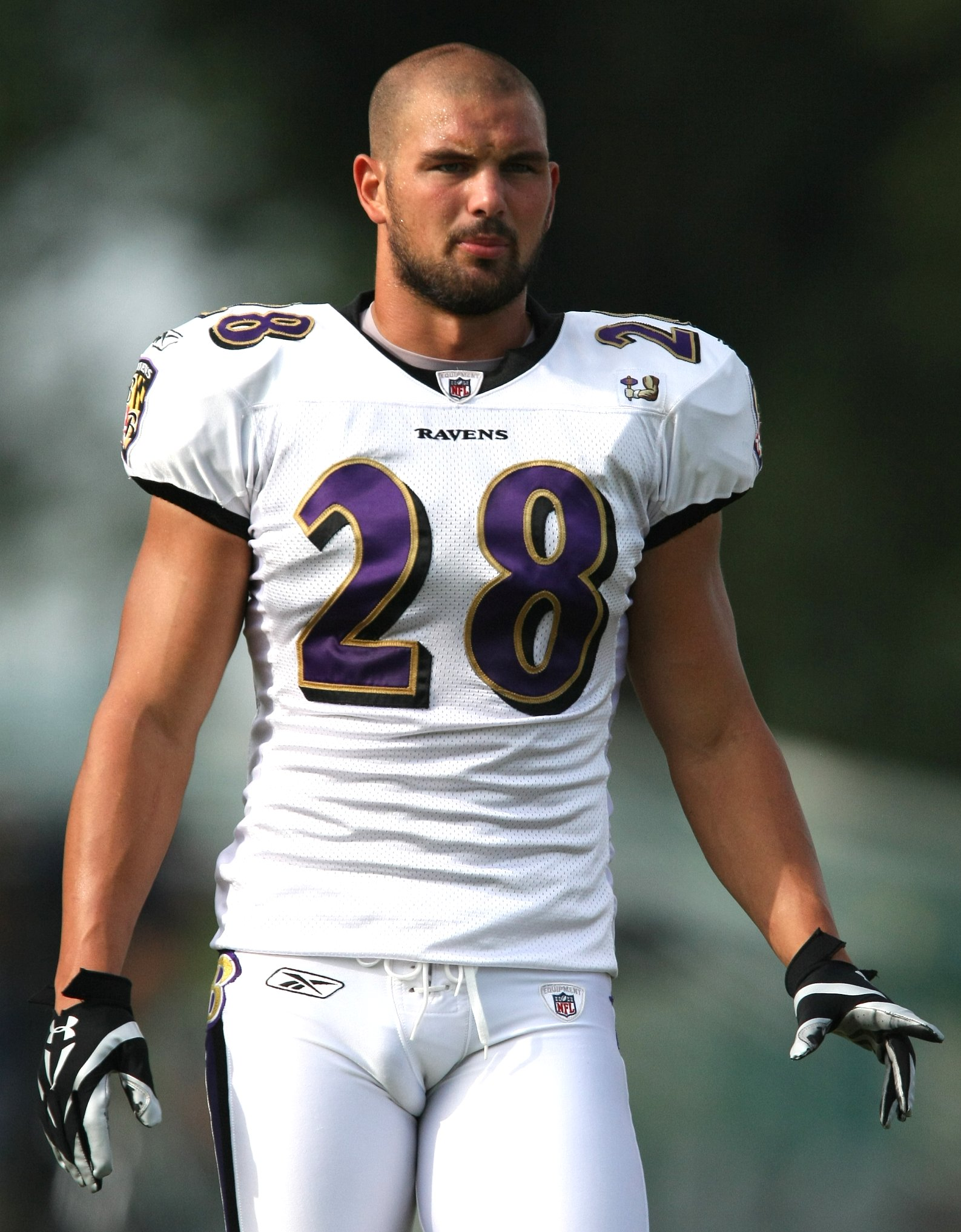 Tom Zbikowski at the Baltimore Ravens Training Camp August 20, 2009.